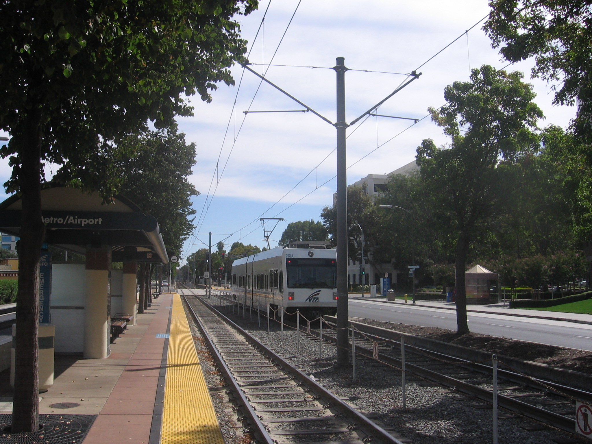 The Metro/Airport (VTA) light rail station in San José, California, USA.